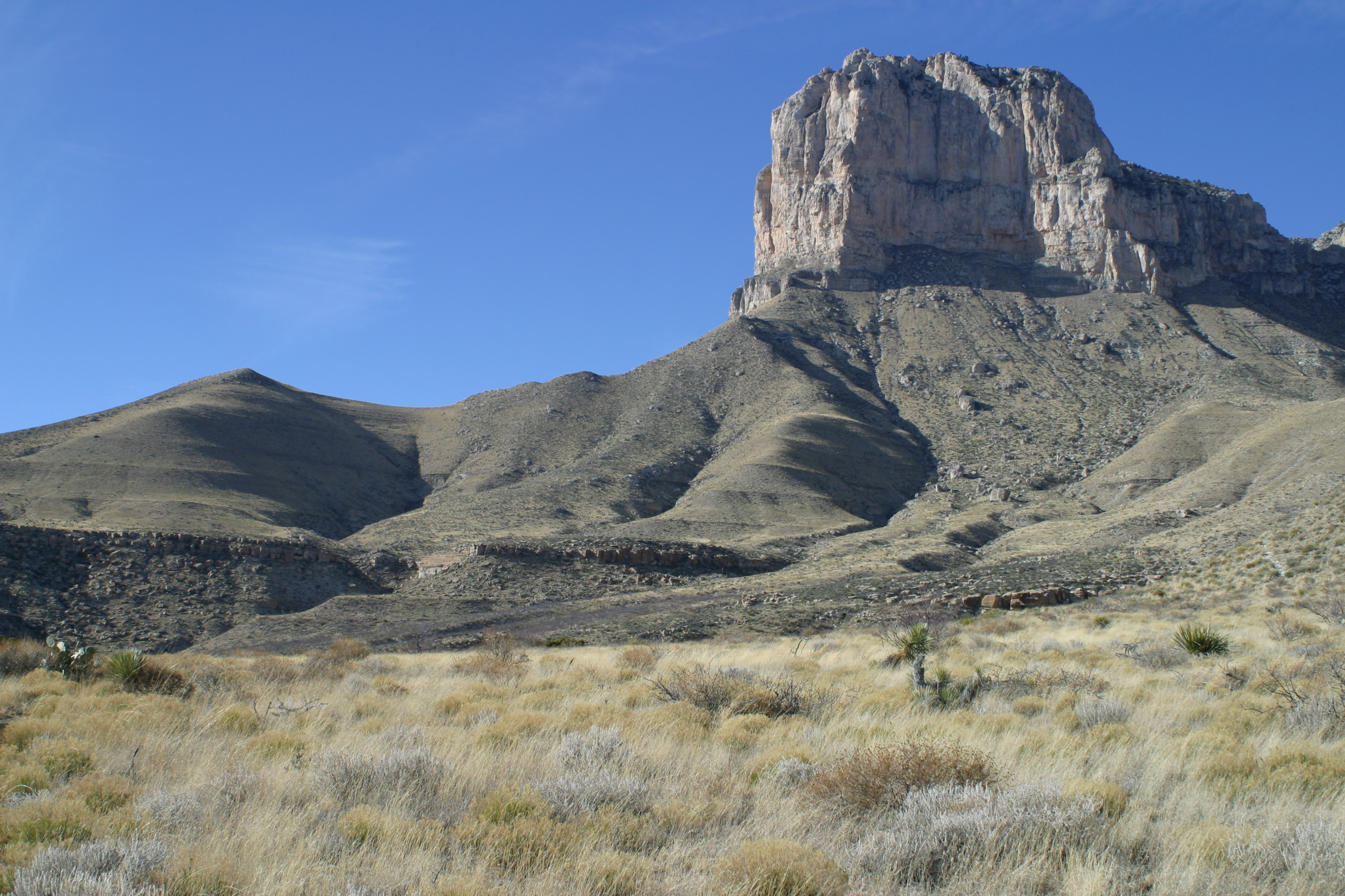 El Capitan, the signature peak of the Guadalupe Mountains